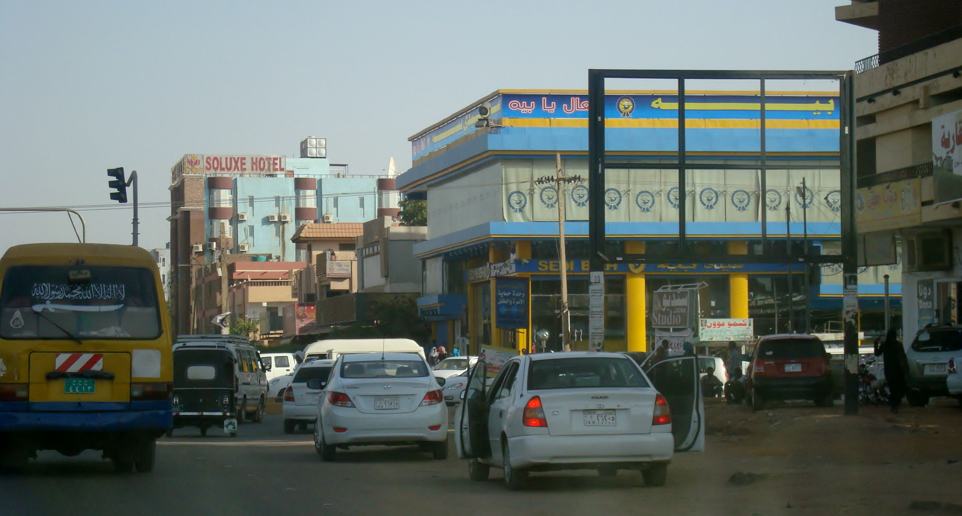 Obeid Khatam Street - Khartoum - Intersection (of Albalab?)